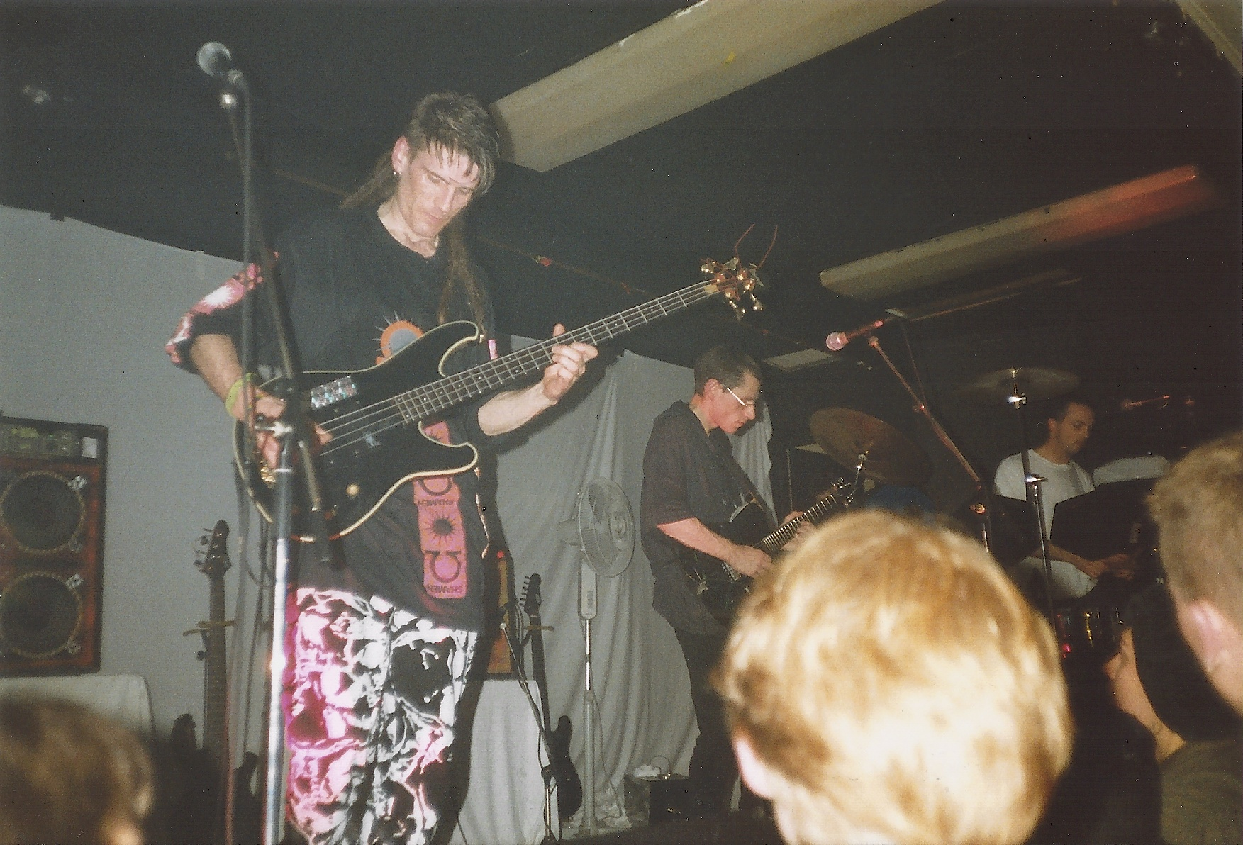 The Shamen, the Venue, Oxford 1990 Oxford Gig photos 1989-90. Includes Ride, Carter, the Shamen, Mega City Four Neate photos facebook page. More neate photos.